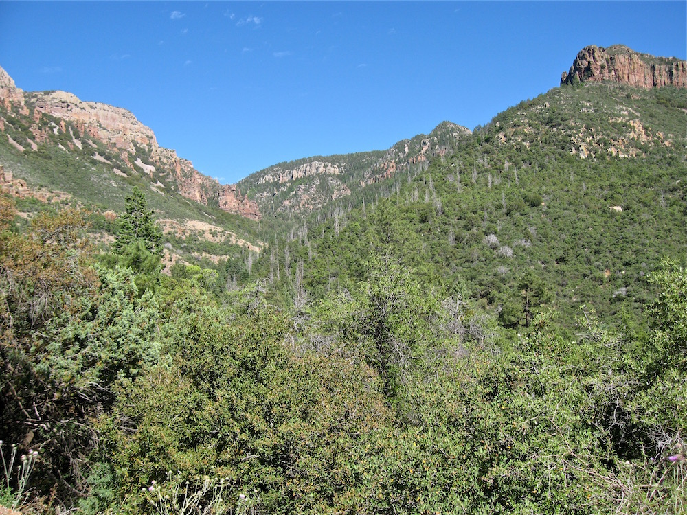 Upper reaches of the south fork of Parker Canyon in the Sierra Ancha, in central Arizona. Camera station at approximately 5000 feet, facing east; rim of canyon at 7000 feet above sea level.